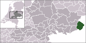 Locator map of Dutch municipalities in Gelderland (LocatieWinterswijk.png)